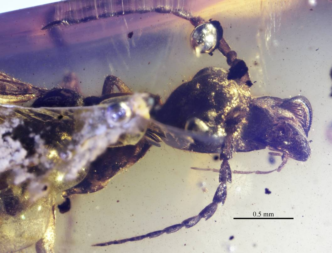 Profile view of the Camelomecia janovitzi holotype queen. Burmese amber, Earliest Cenomanian; Kachin State, Myanmar American Museum of Natural History specimen AMNH-BUTJ003